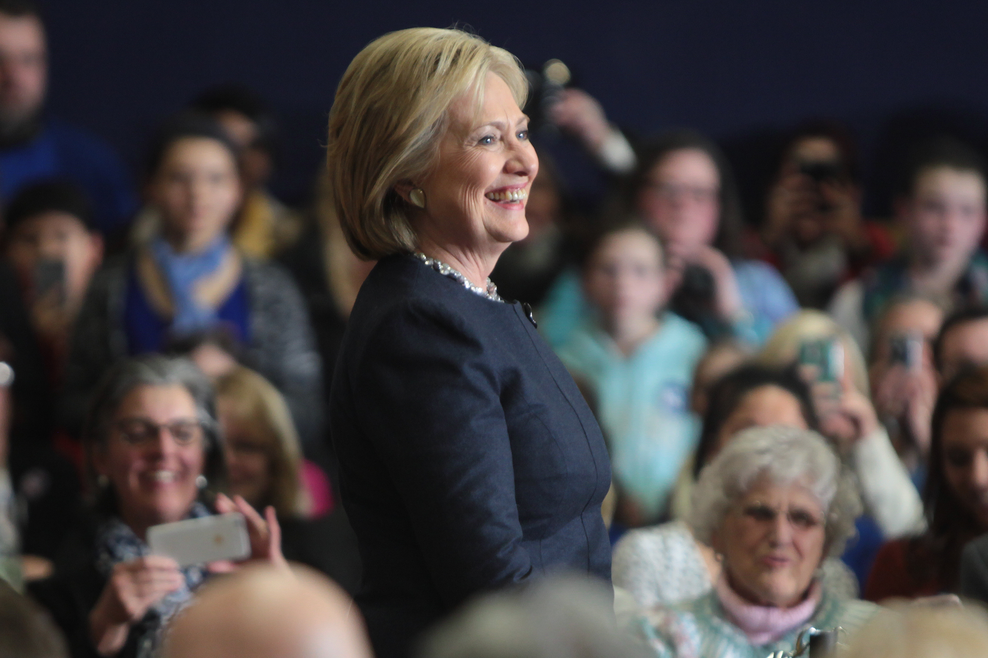 Hillary Clinton speaking at an event in Manchester, New Hampshire.